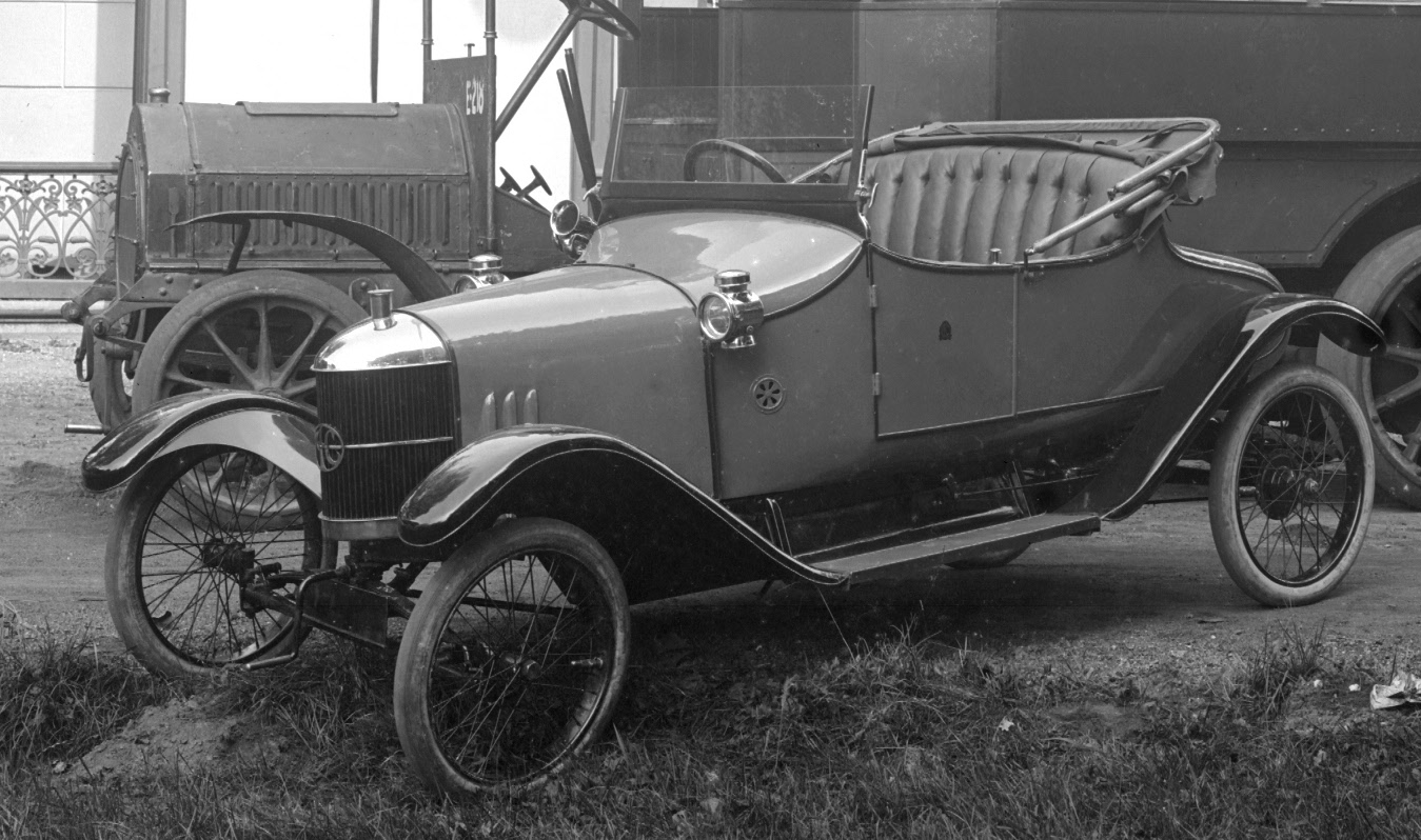 Spijker omnibus and AC 10hp car the personal car of Hofstede Crull behind the office building of NV Hengelosche Electrische en Mechanische Apparaten Fabriek